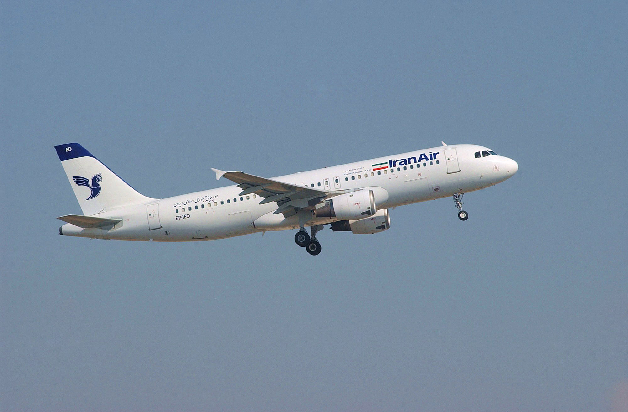 Taking-off from Dubai on December 9, 2010.